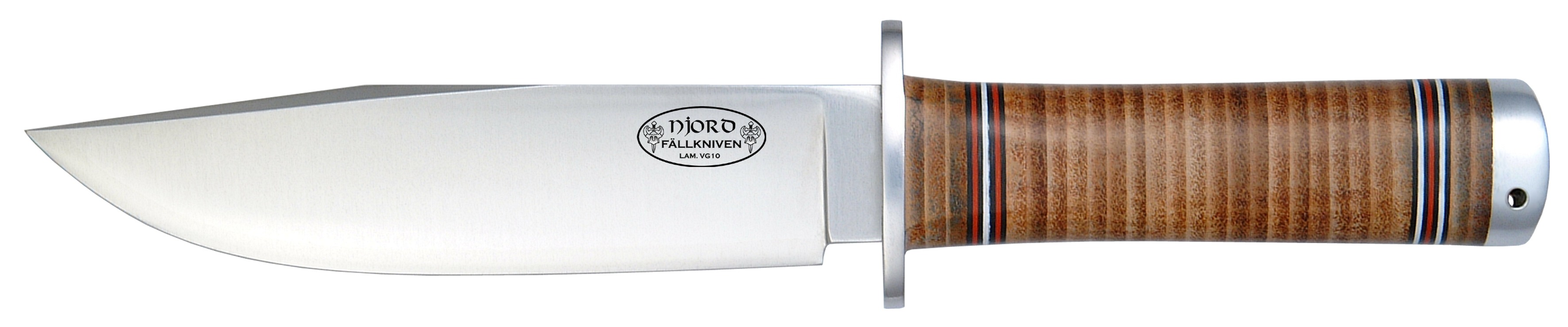 Fällkniven NL3 knive